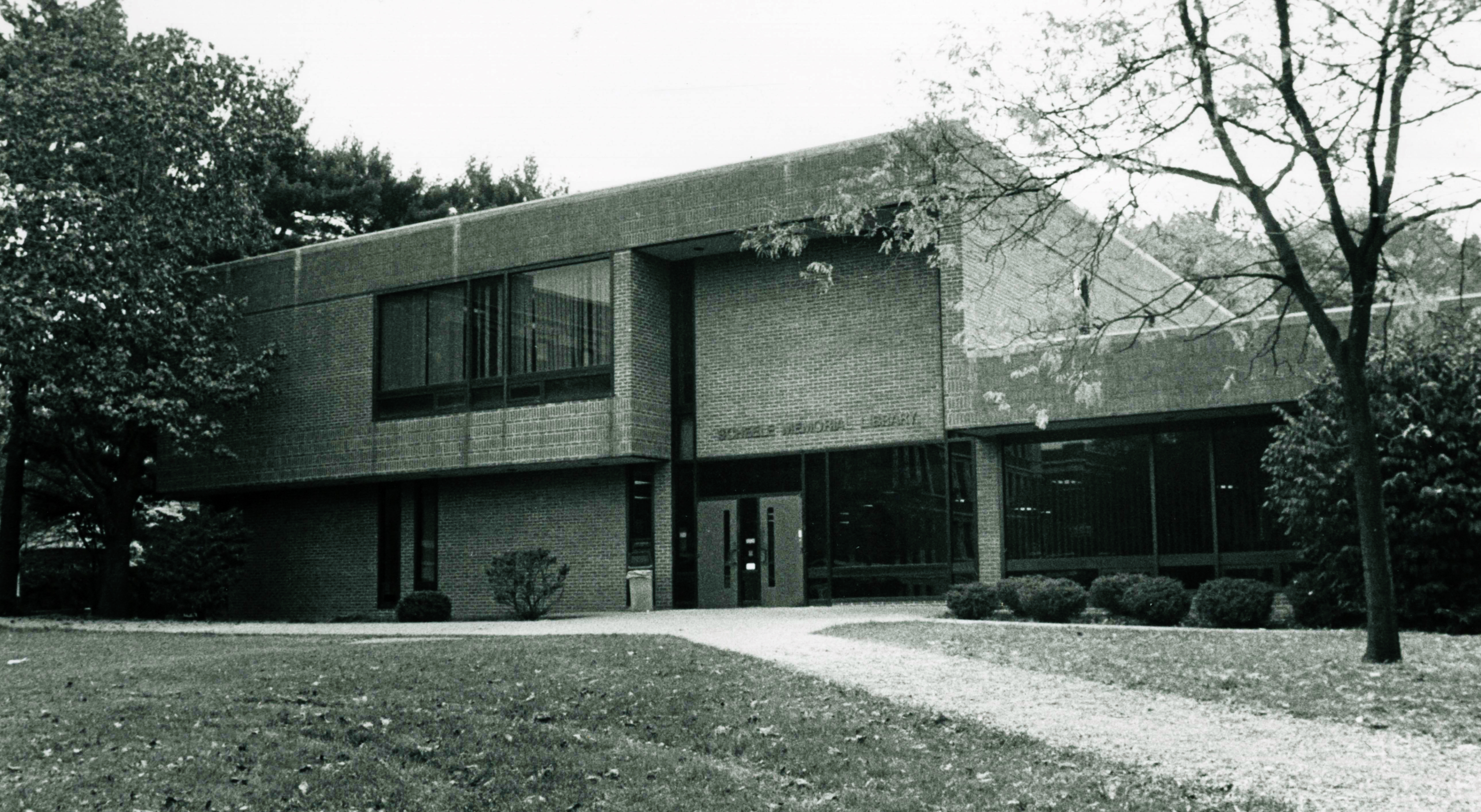 First Construction